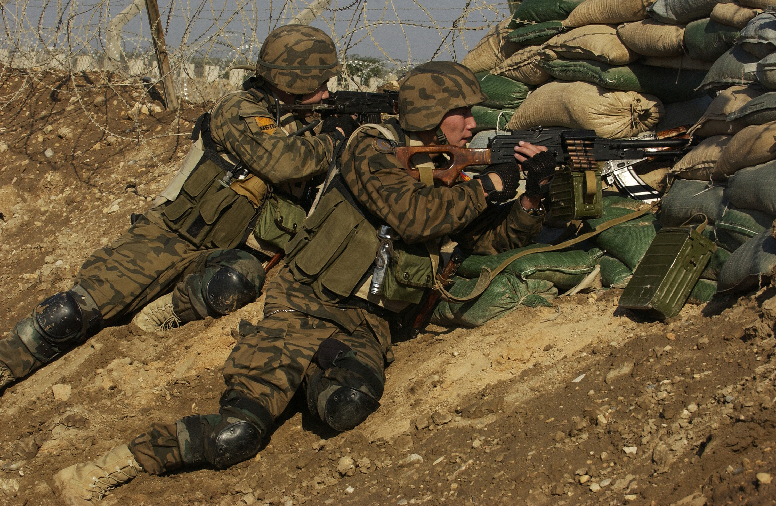 Two Mongolian Quick Reactionary Force (QRF) Army Soldiers scan the area utilizing a bunker for cover, ready to defend Camp Echo from possible threats Dec 8, 2006.